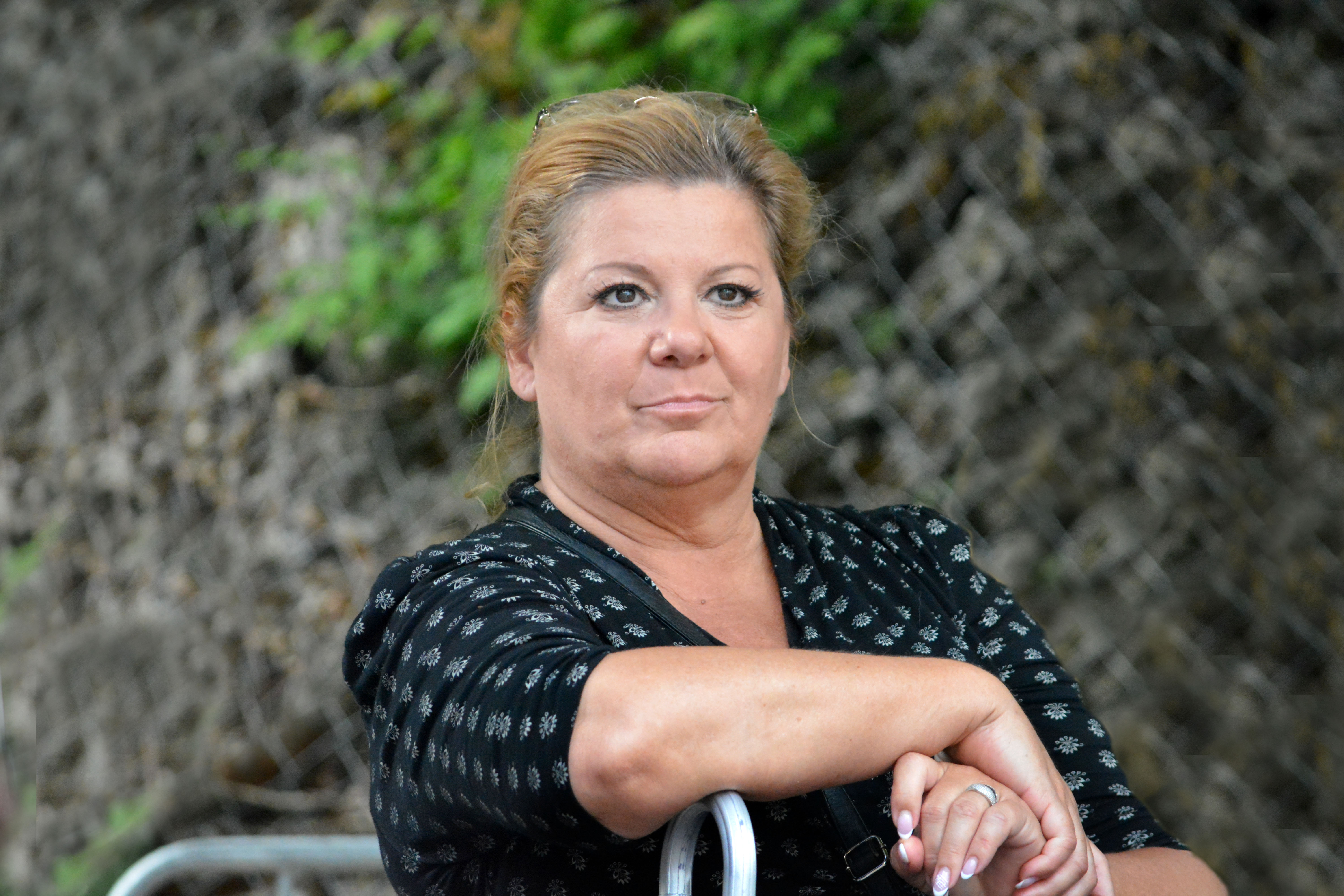 Seres Ildikó - Hungarian actress POSZT ( Pécs National Theatre Festival ) 2016